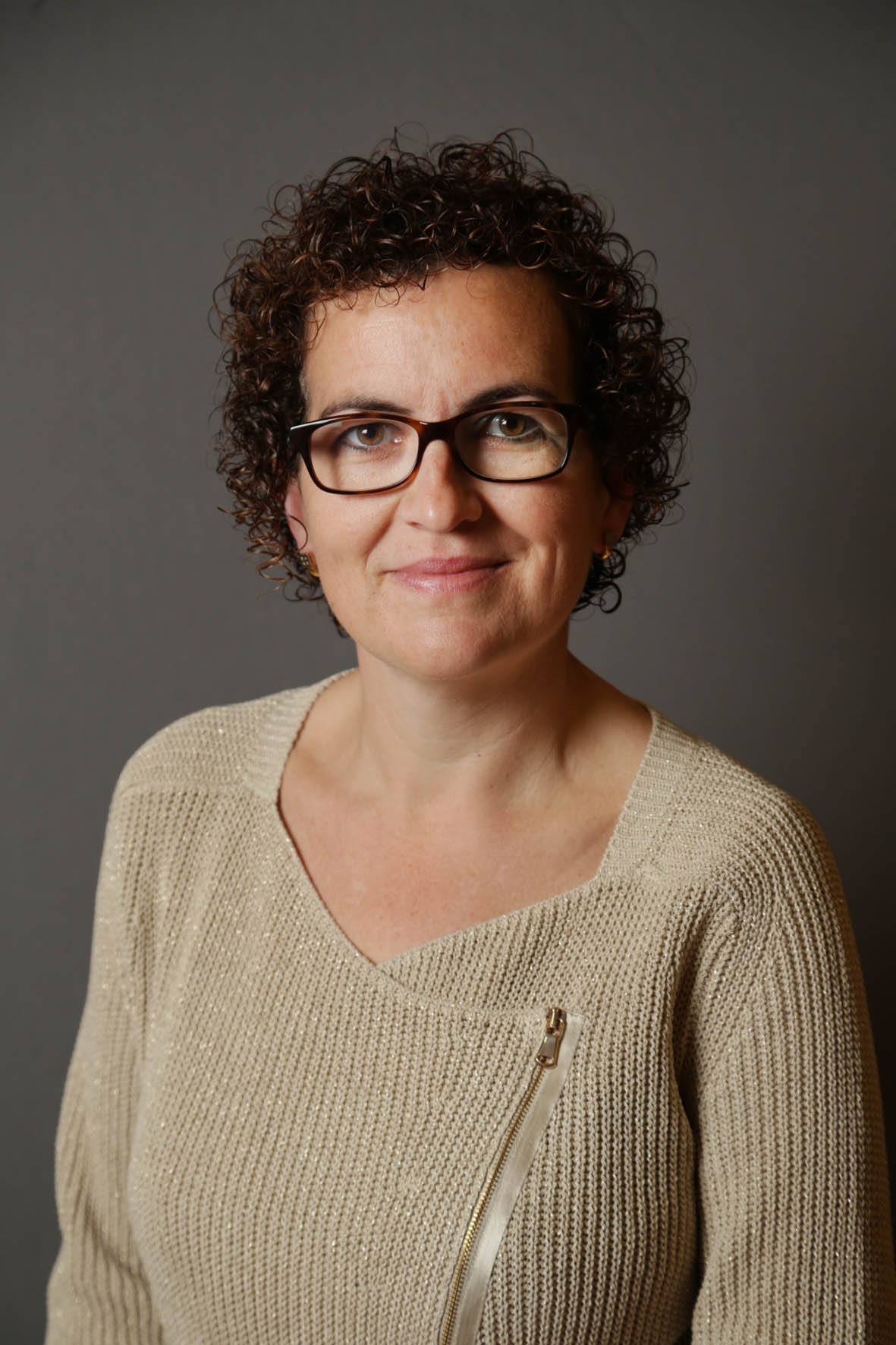 Candidats Eleccions Generals 2015 Agnès Ferré